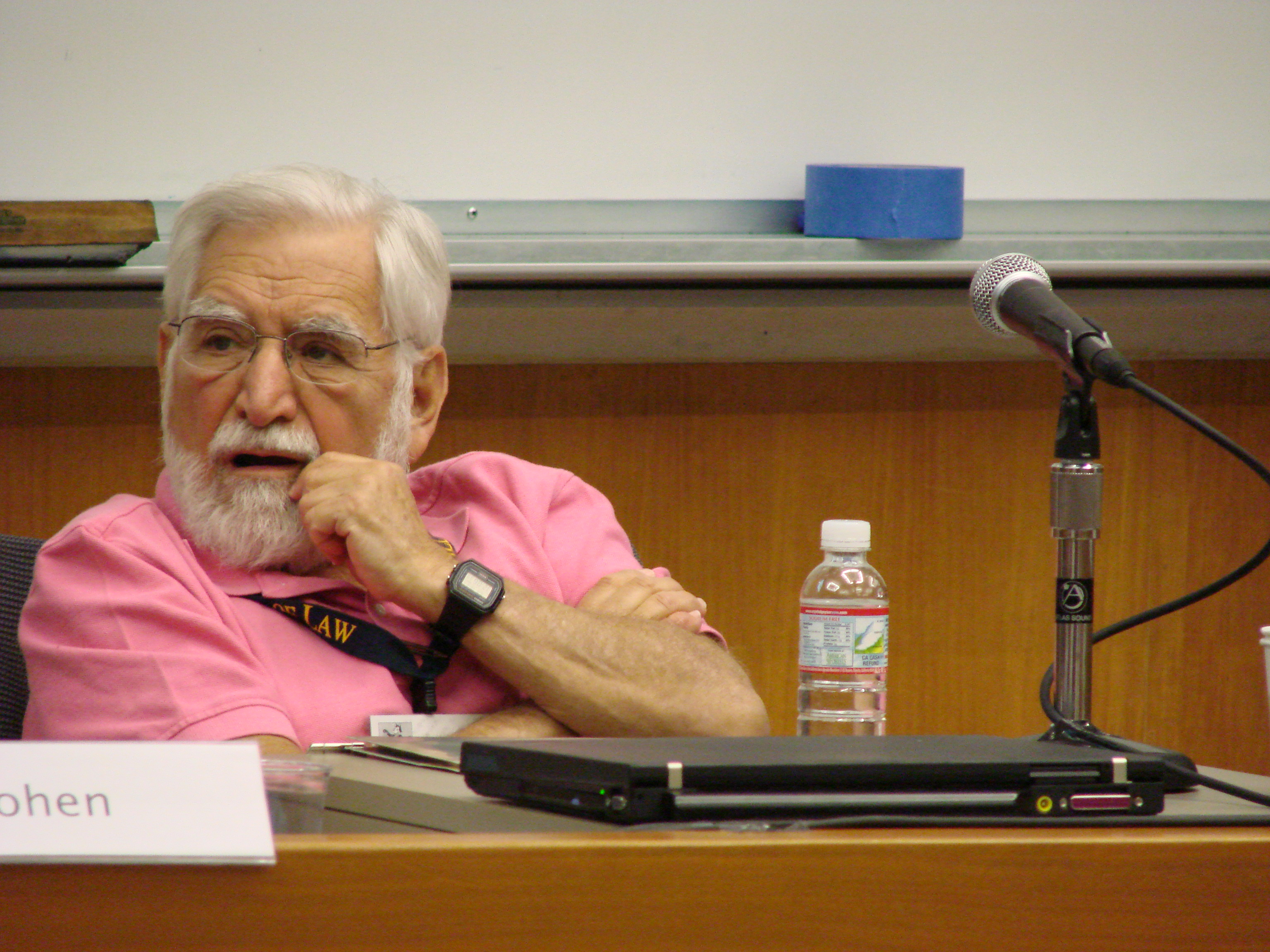 Roy Mersky (1925-2008), Professor of Law and longtime Director of the Tarlton Law Library at the University of Texas at Austin